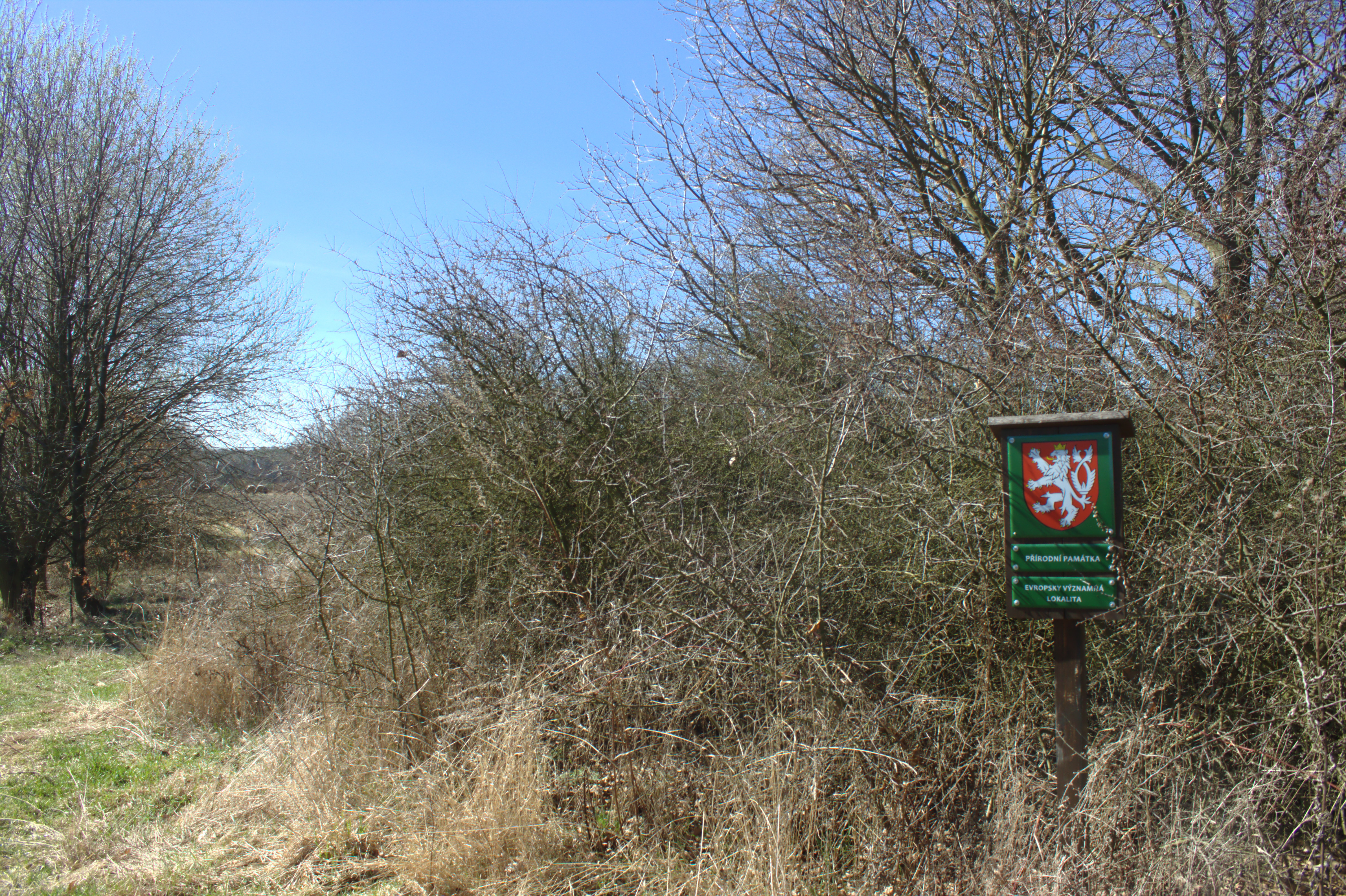 Border of the Kyšice-Kobyla natural reserve, Central Bohemian Region, CZ